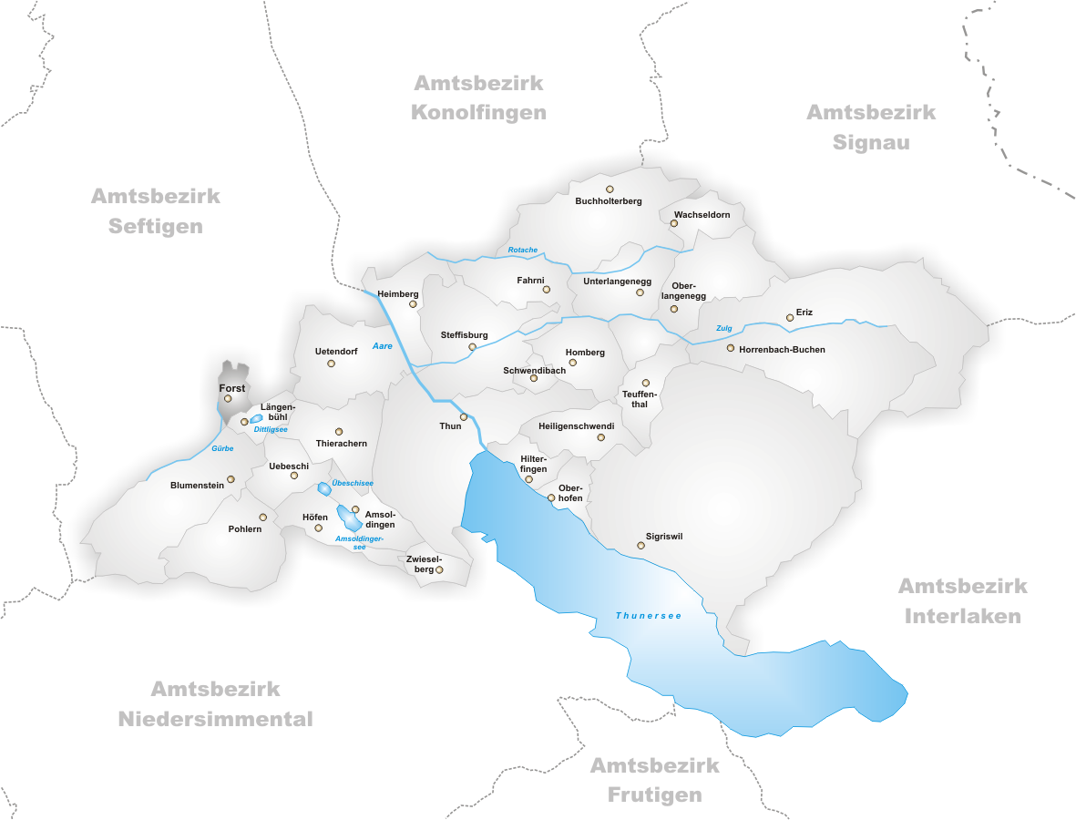 Municipality Forst